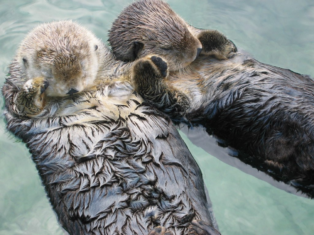 Sleeping sea otters (Enhydra lutris) holding hands, photographed at the Vancouver Aquarium, Vancouver, British Columbia, Canada.